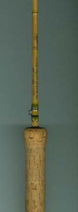 Freestone model of Brookside and Moss Rod Co. handmade by Geremy Hebert